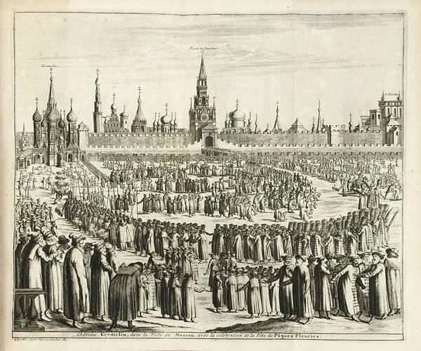 View of Moscow Kremlin in XVII century, published in 1727 by the Dutch Printer Pieter van der Aa.